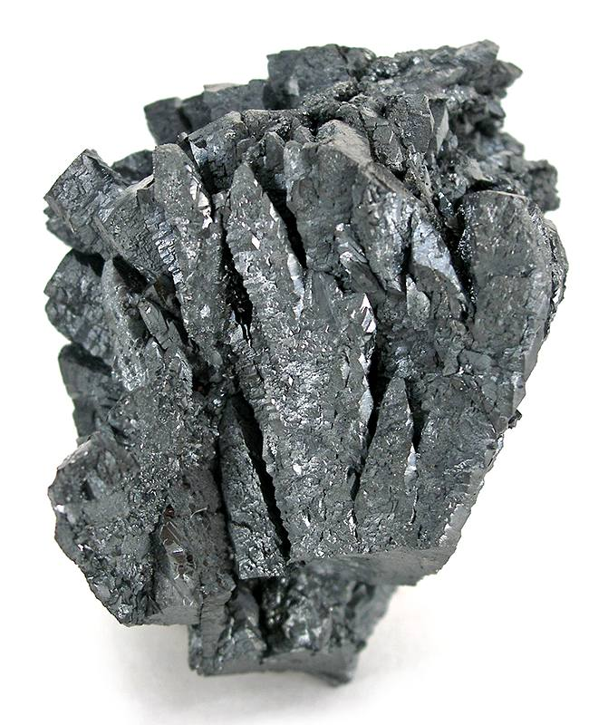 Manganite Locality: Wessels Mine (Wessel's Mine), Hotazel, Kalahari manganese fields, Northern Cape Province, South Africa (Locality at ) Size: miniature, 4.3 x 4.0 x 2.5 cm Manganite An elegant cluster of unusual, thick, blocky manganite crystals splayign like a flower. Gray and color-challenged, yes, but still a pretty darned good manganite especially for a manganese mine that produces few manganite specimens! Complete on 3 sides, sawed flat on the back (or a flat conteact, I am not sure which)